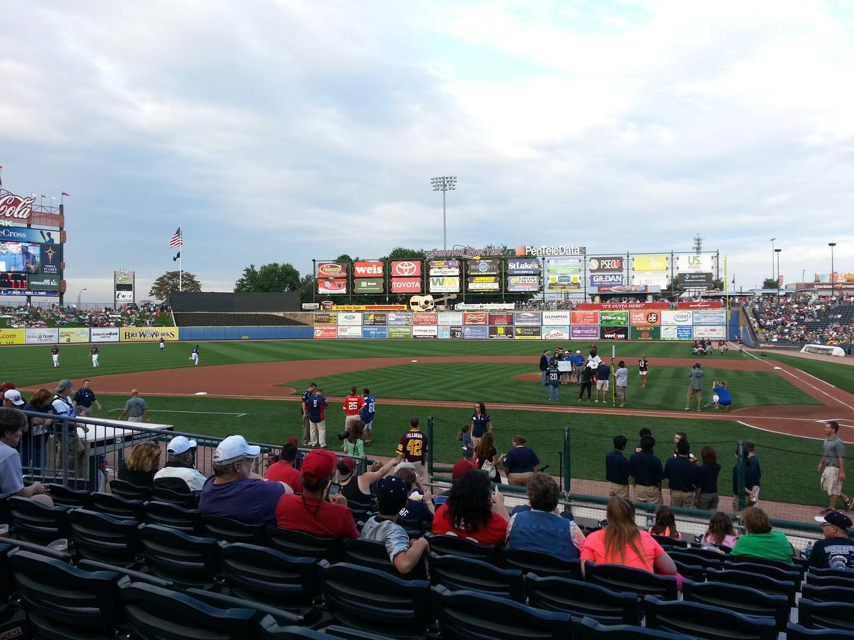 Coca-Cola Park in Allentown, Pennsylvania.